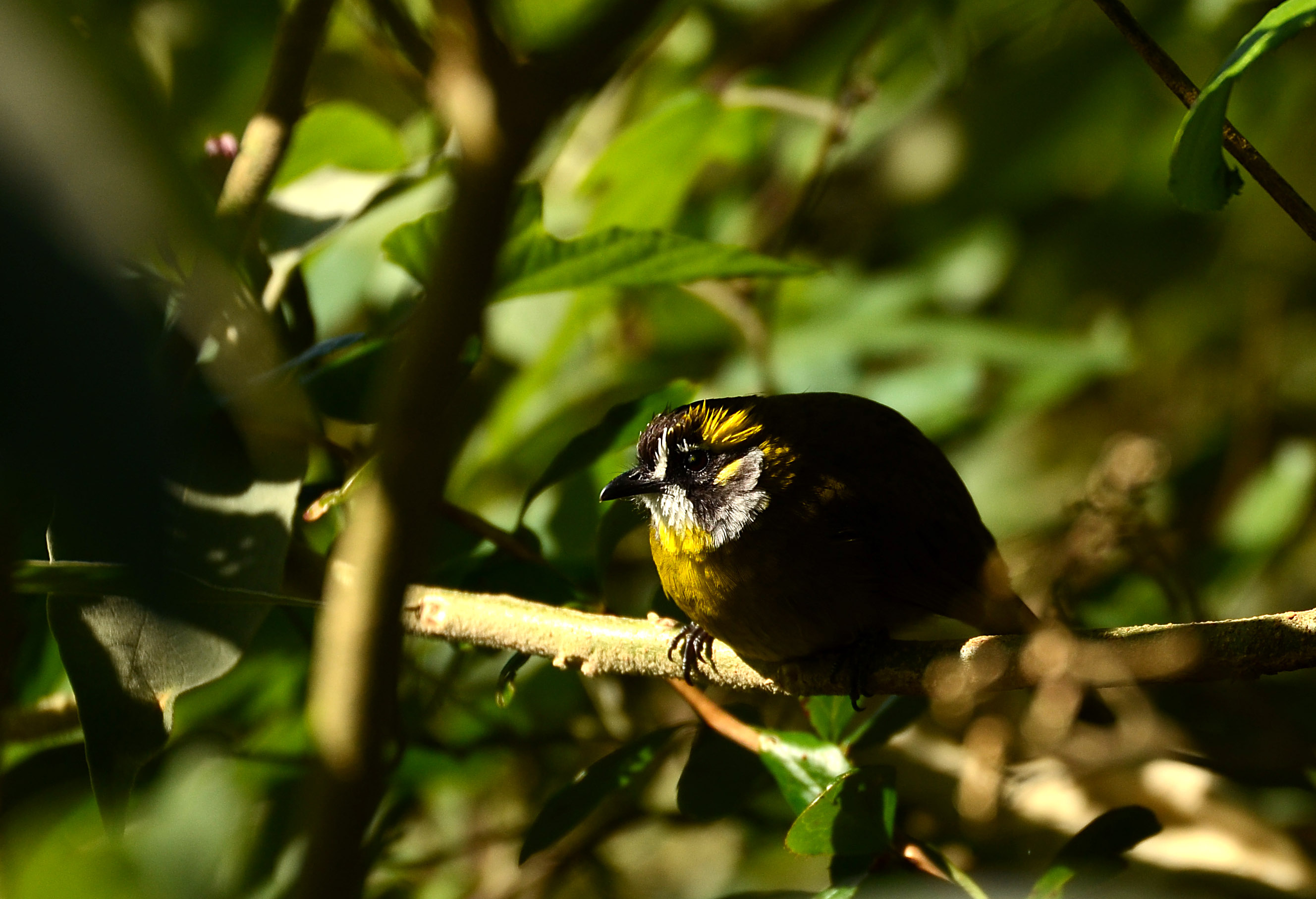 Yellow-eared Bulbul in Horton Plains, Sri Lanka